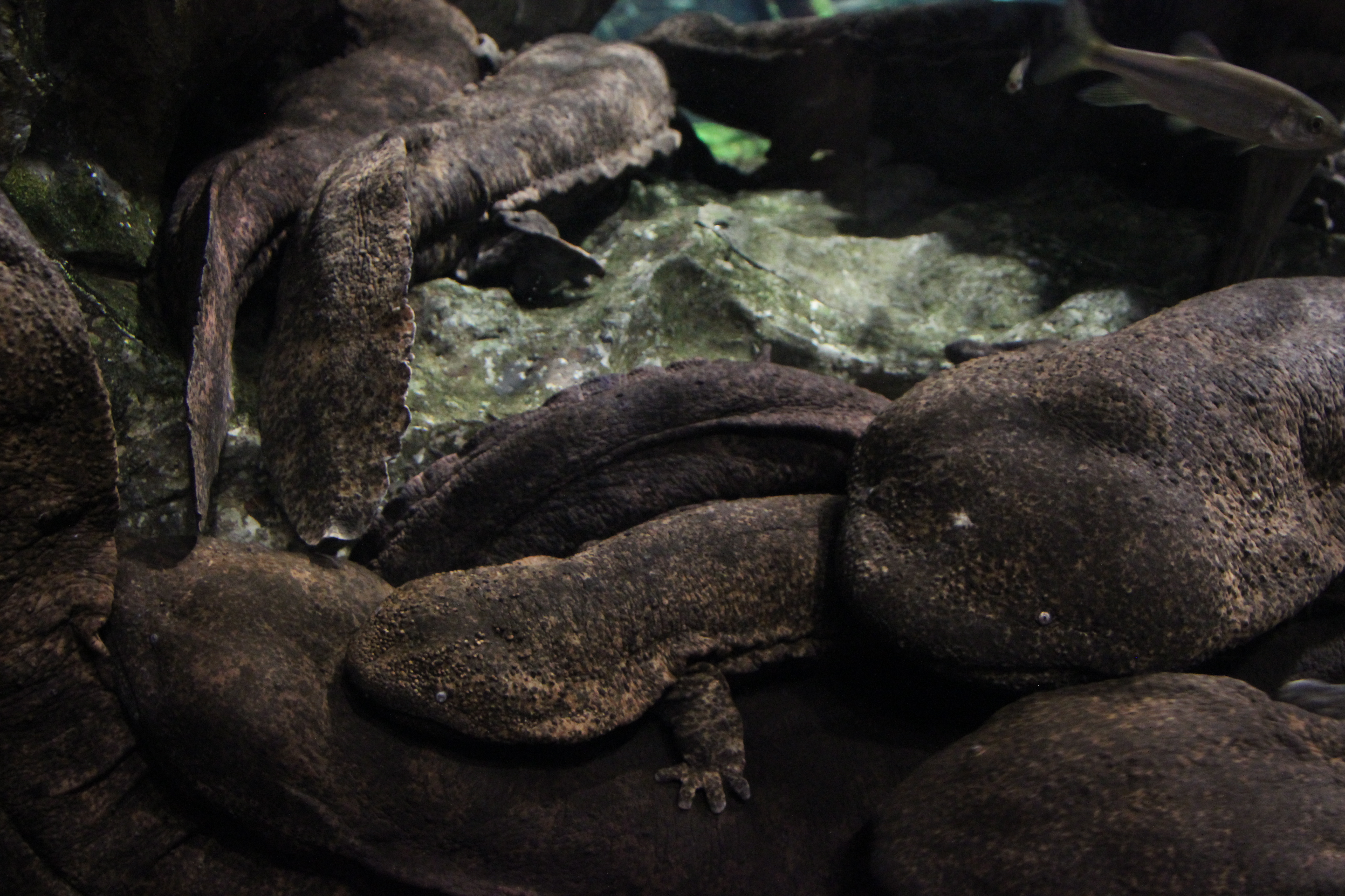 Japanese Giant Salamaders (Andrias japonicus) at the Kyoto Aquarium